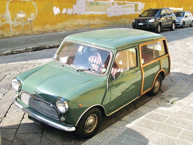 Innocenti Mini T MK2 (1968-1970)